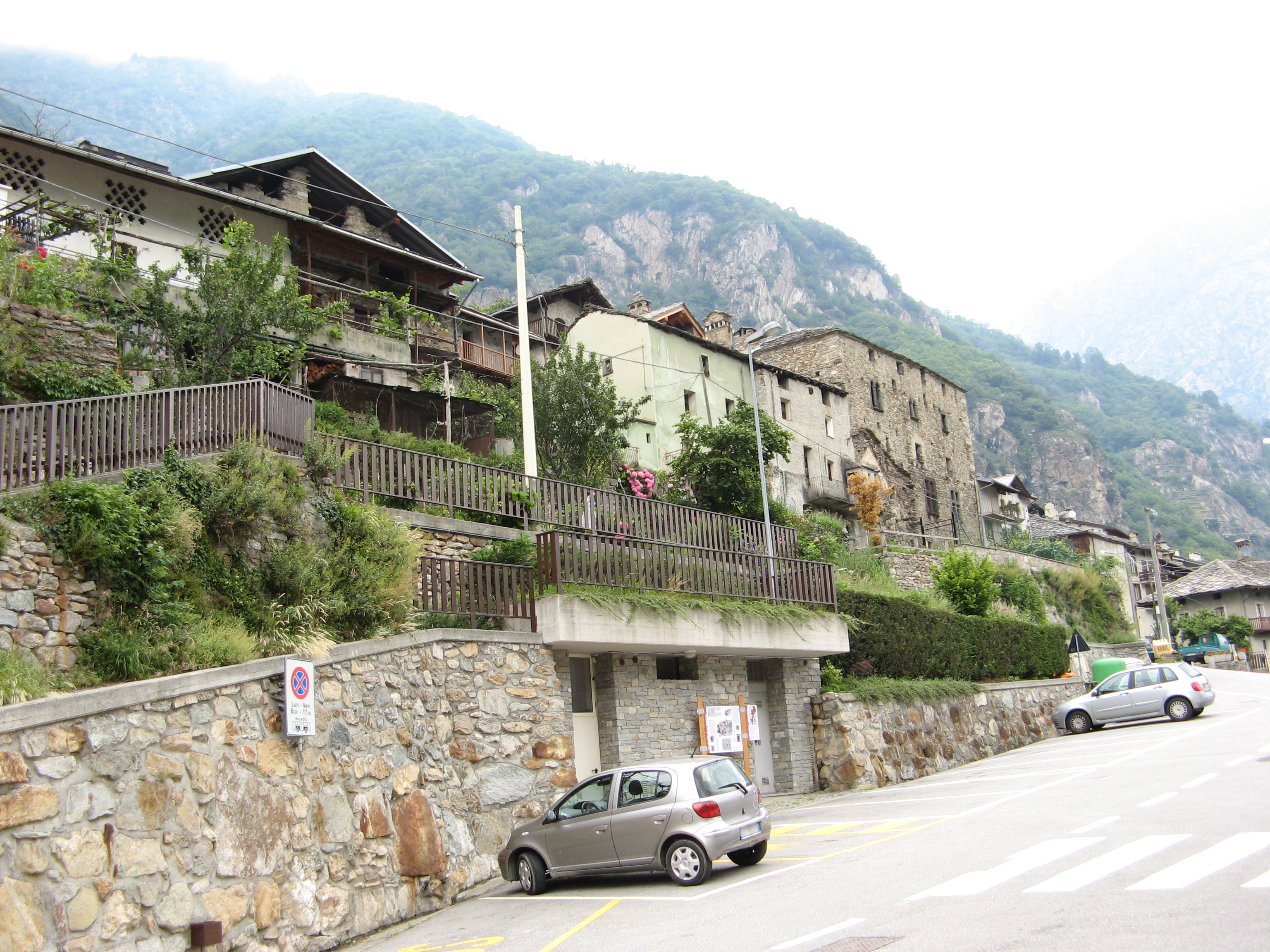 view of Perloz (Valle d'Aosta, Italy)